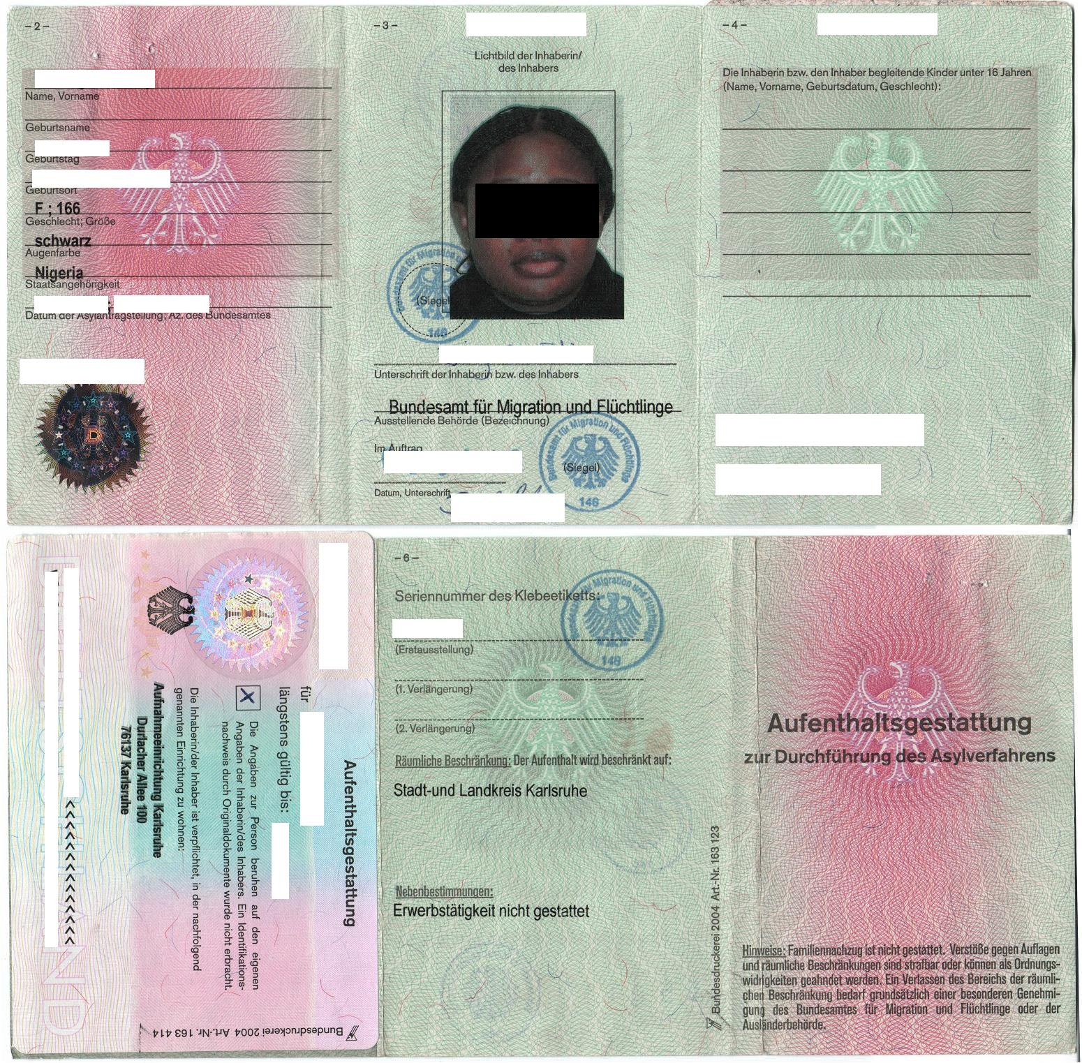 Completed form of a temporary residence permit for asylum seekers (in Germany). Personal informations are removed.